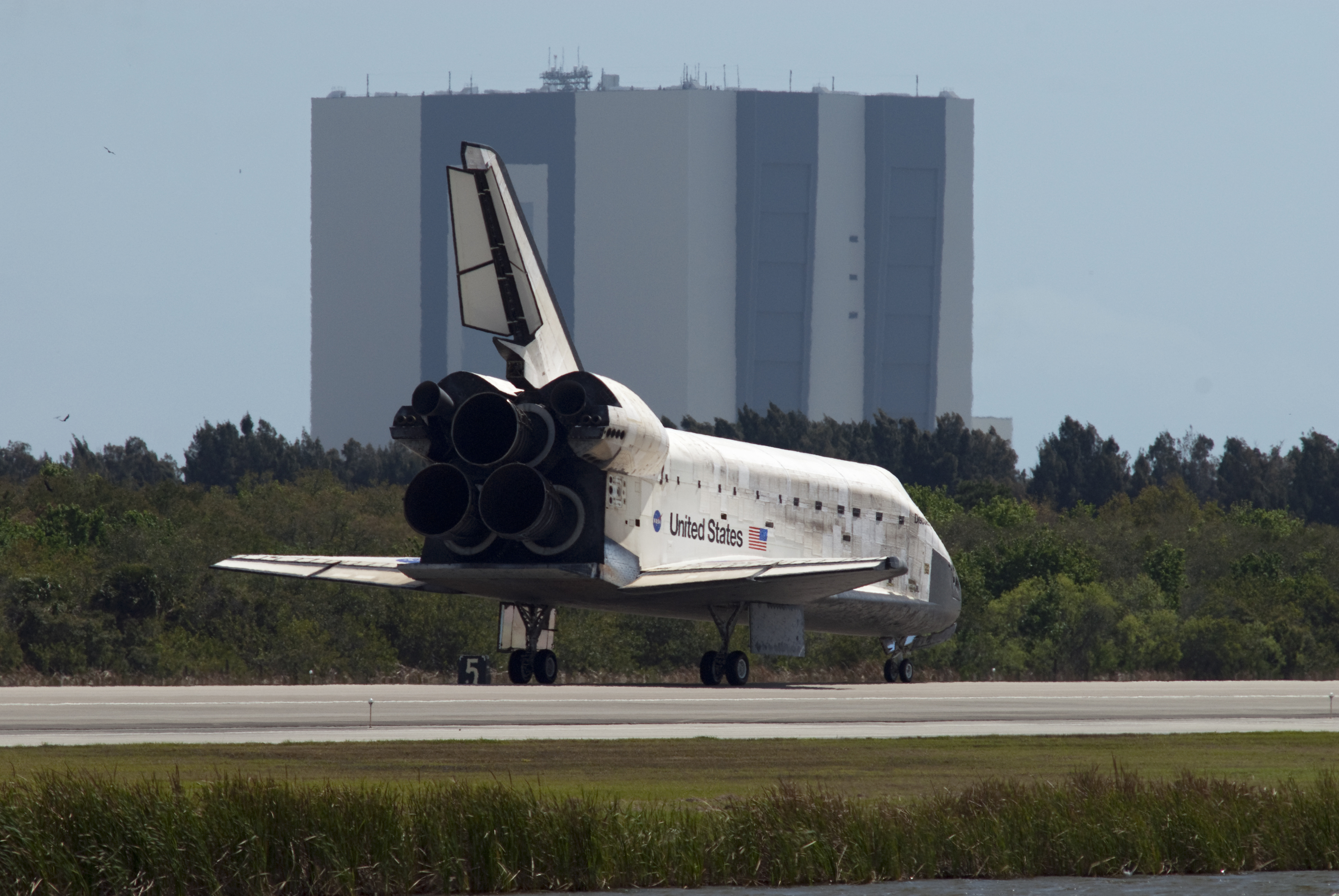 CAPE CANAVERAL, Fla. - Space shuttle Discovery rolls to a stop on Runway 15 at the Shuttle Landing Facility at NASA's Kennedy Space Center in Florida. Discovery's final return from space completed the 13-day, 5.3-million-mile STS-133 mission. Main gear touchdown was at 11:57:17 a.m., followed by nose gear touchdown at 11:57:28, and wheelstop at 11:58:14 a.m. On board are Commander Steve Lindsey, Pilot Eric Boe, and Mission Specialists Nicole Stott, Michael Barratt, Alvin Drew and Steve Bowen. Discovery and its six-member crew delivered the Permanent Multipurpose Module, packed with supplies and critical spare parts, as well as Robonaut 2, the dexterous humanoid astronaut helper, to the orbiting outpost. STS-133 was Discovery's 39th and final mission. This was the 133rd Space Shuttle Program mission and the 35th shuttle voyage to the space station.